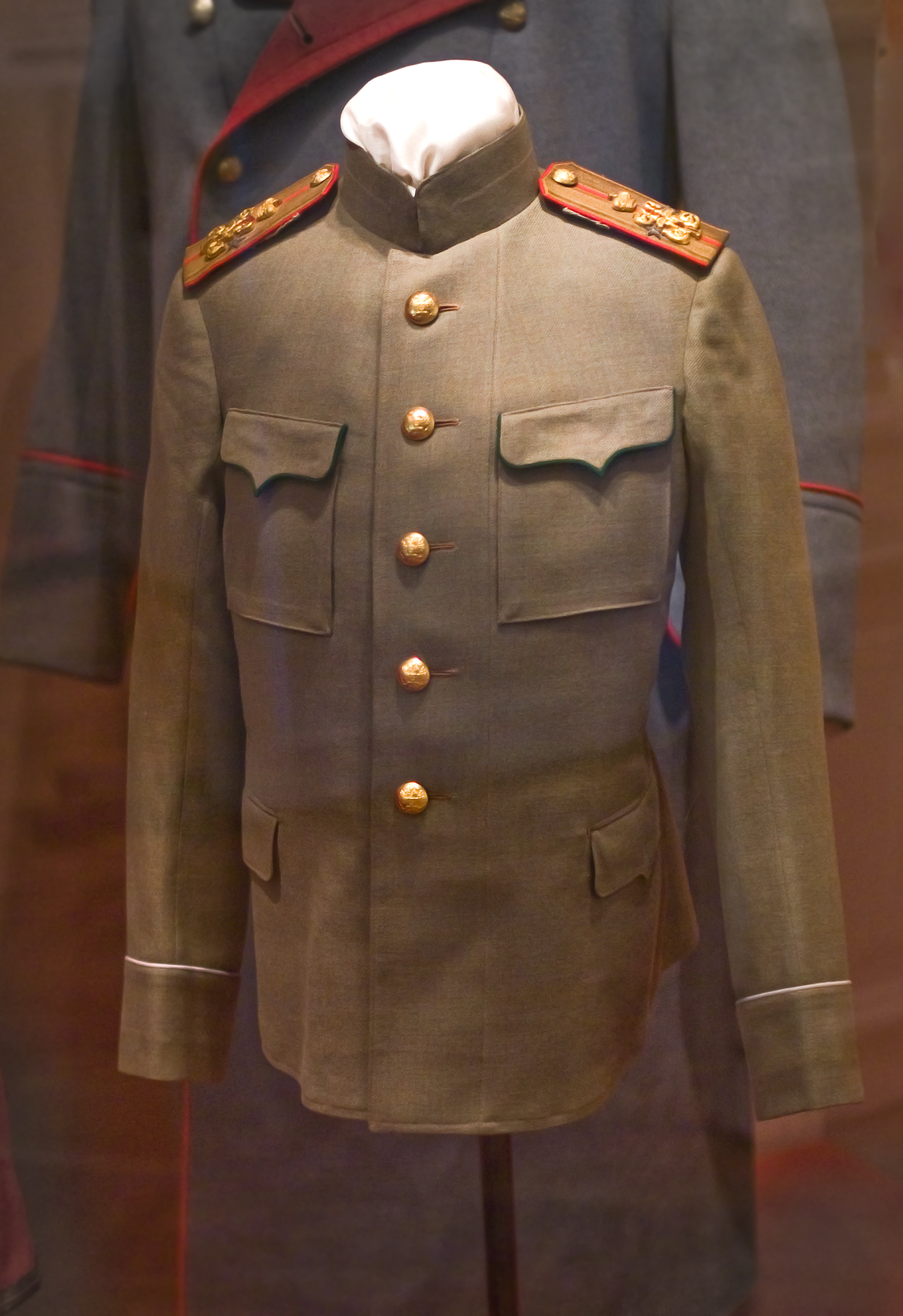 Officer's kitel of the the His Majesty Lifeguard Jaeger Regiment; the tunic belonged to His Majesty Tsarevitch Aleksandr Nikolaevich, 1910.